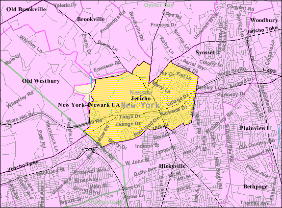 U.S. Census 2000 reference map for Jericho, New York